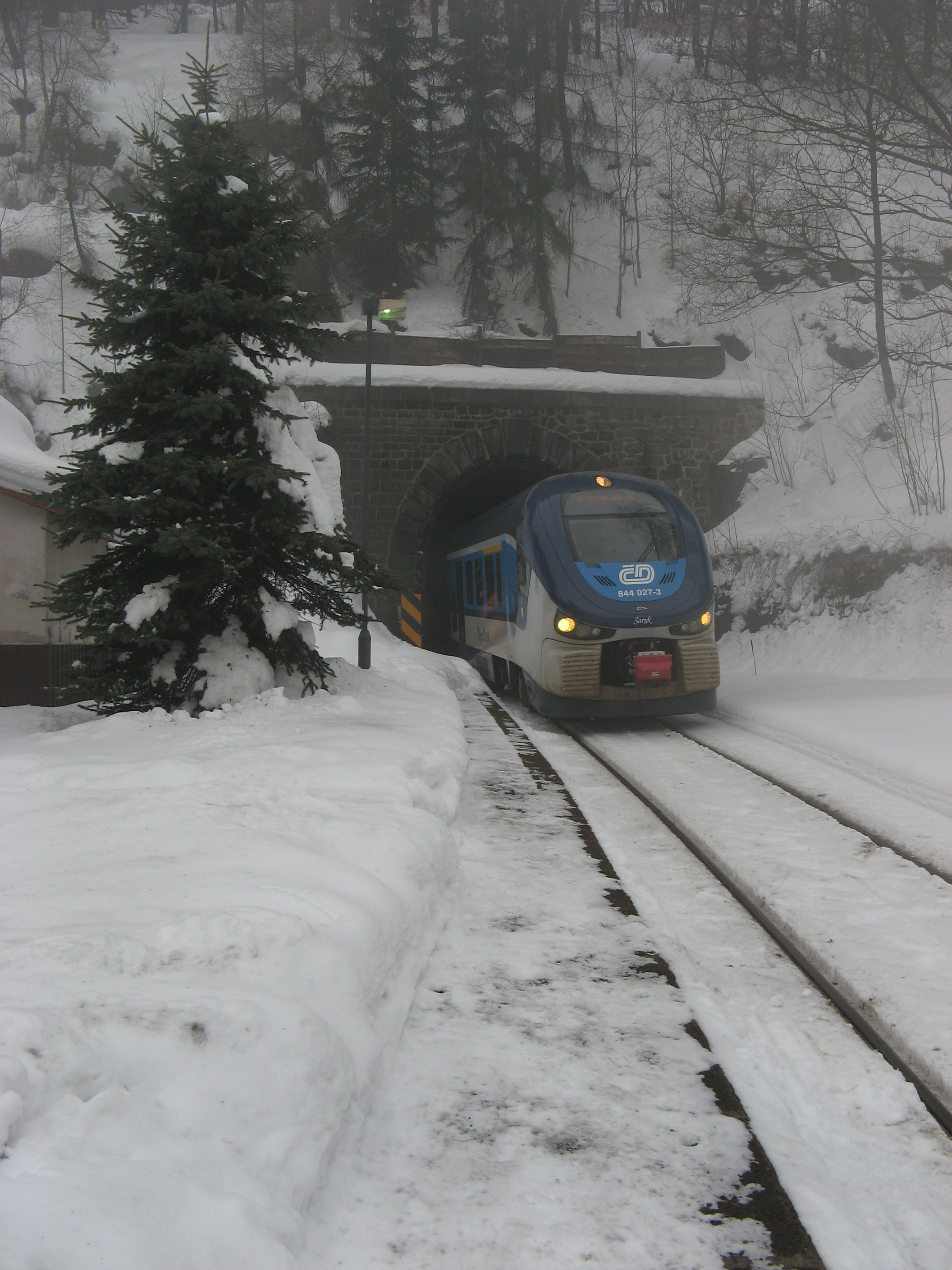 (per Google Translate) Motor vehicle stop at 844 Mikulov in the Ore Mountains re: The Ore Mountains or Ore Mountains Range[1] in Central Europe have formed a natural border between Saxony and Bohemia for around 800 years, from the 12th to the 20th centuries. Today, the border between Germany and the Czech Republic runs just north of the main crest of the mountain range. The highest peaks are the Klínovec (German: Keilberg), which rises to 1,244 metres (4,081 ft) above sea level and the Fichtelberg (1,215 metres (3,986 ft)). The area played an important role in contributing Bronze Age ore, and as the setting of the earliest stages of the early modern transformation of mining and metallurgy from a craft to a large-scale industry, a process that preceded and enabled the later Industrial Revolution. • Both literally translate to "ore mountains"[2])